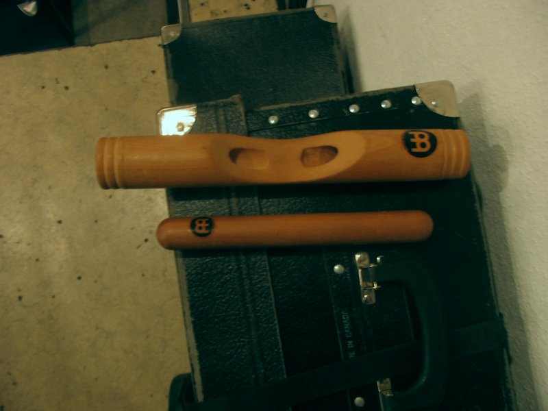 We found this percussion instrument in our band's rehearsal room. [...]What is this?